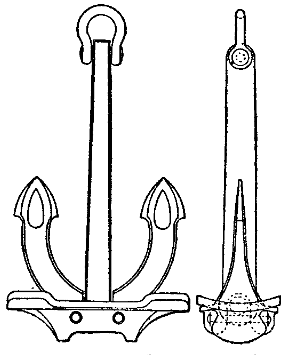 Hall's Improved Stockless Anchor. Illustration from 1911 Encyclopædia Britannica, article Anchor.